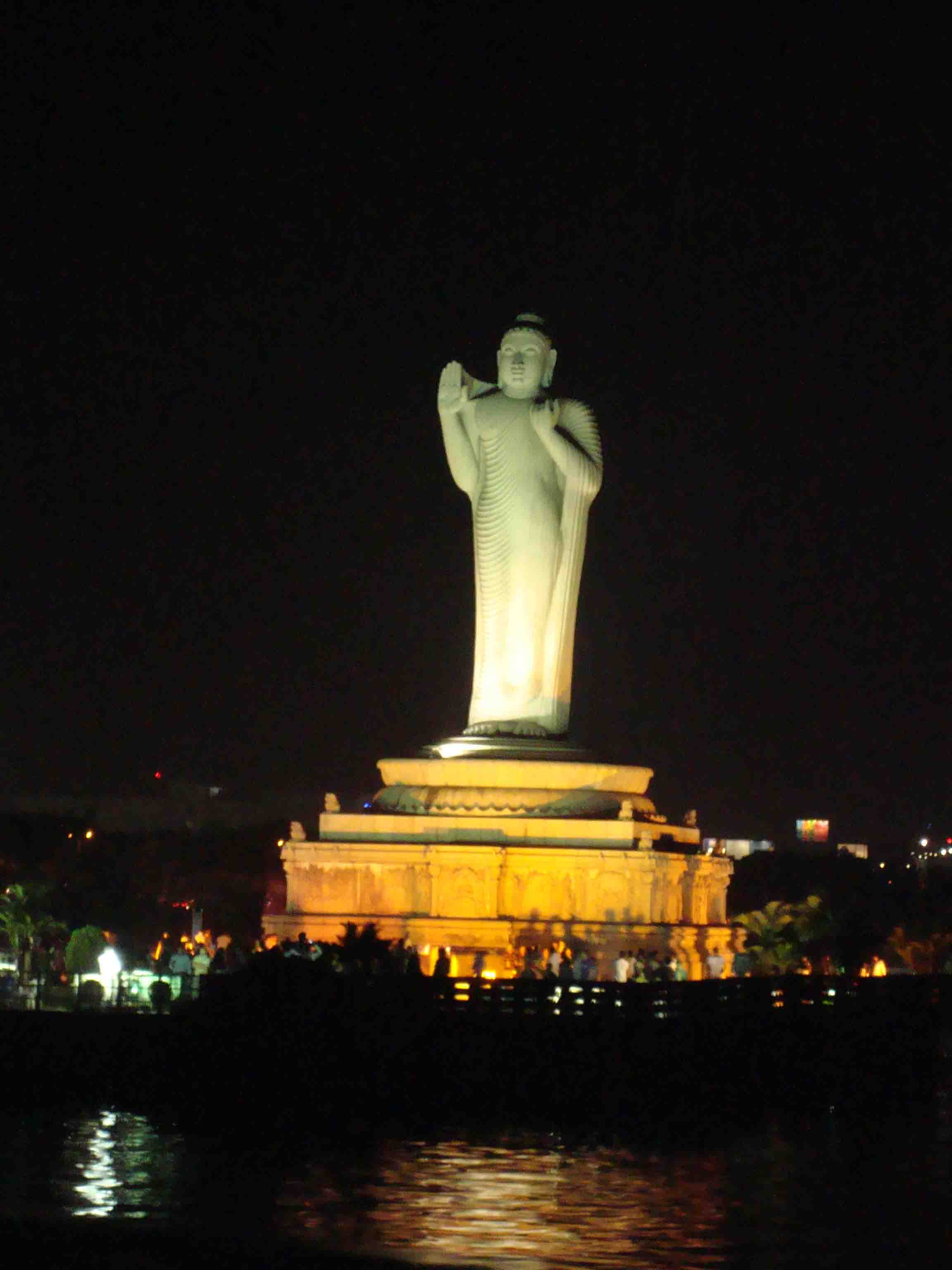 Hyderabad - hussain sagar